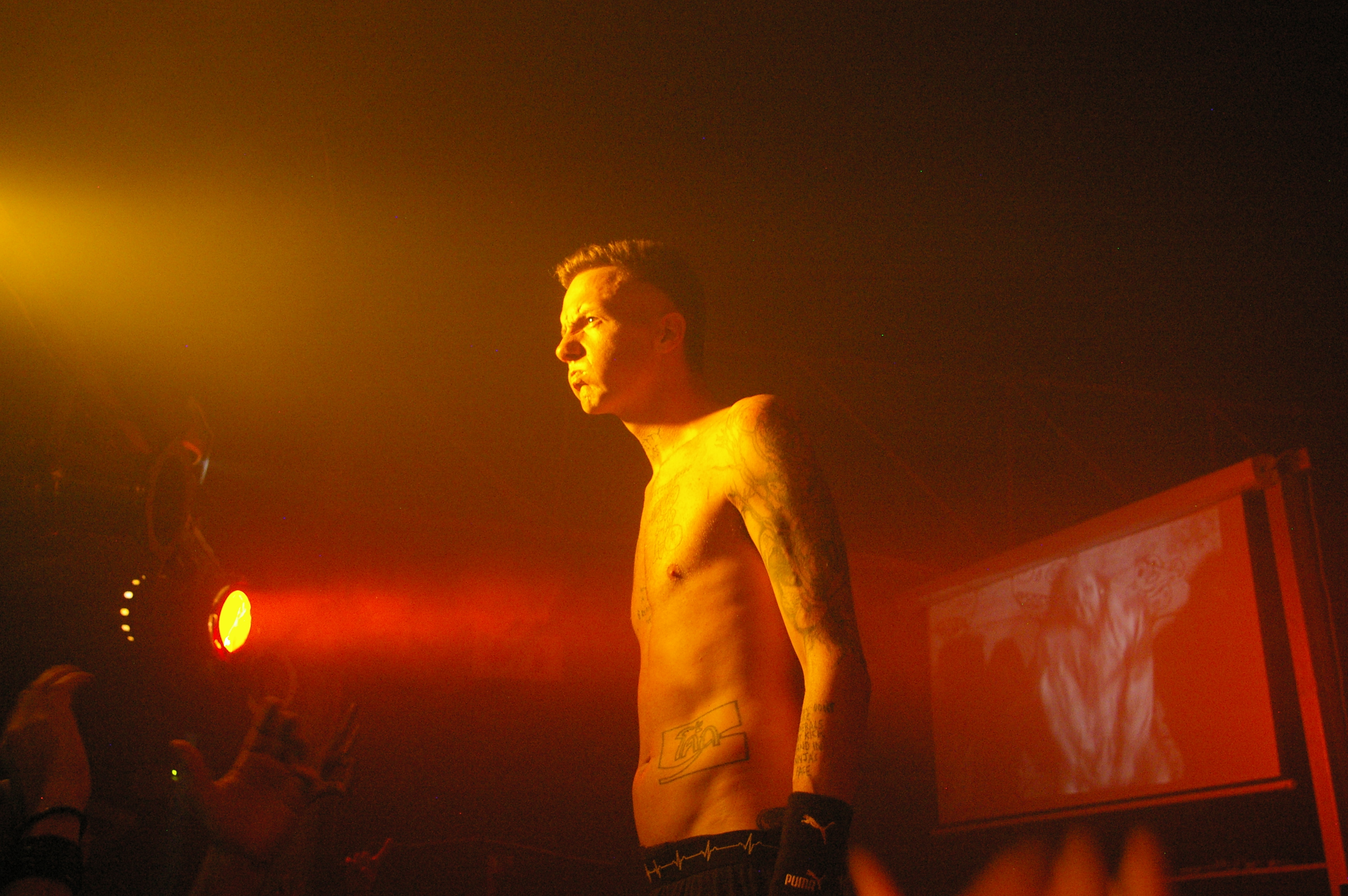 Die Antwoord is Barbare.